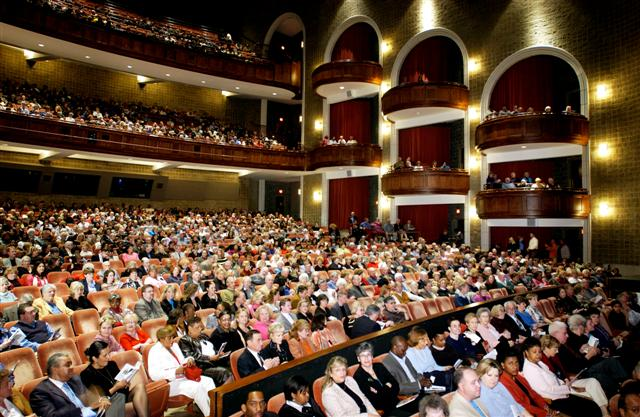 Peace Concert Hall inside Peace Center, filled with audiences. Greenville, South Carolina, United States.